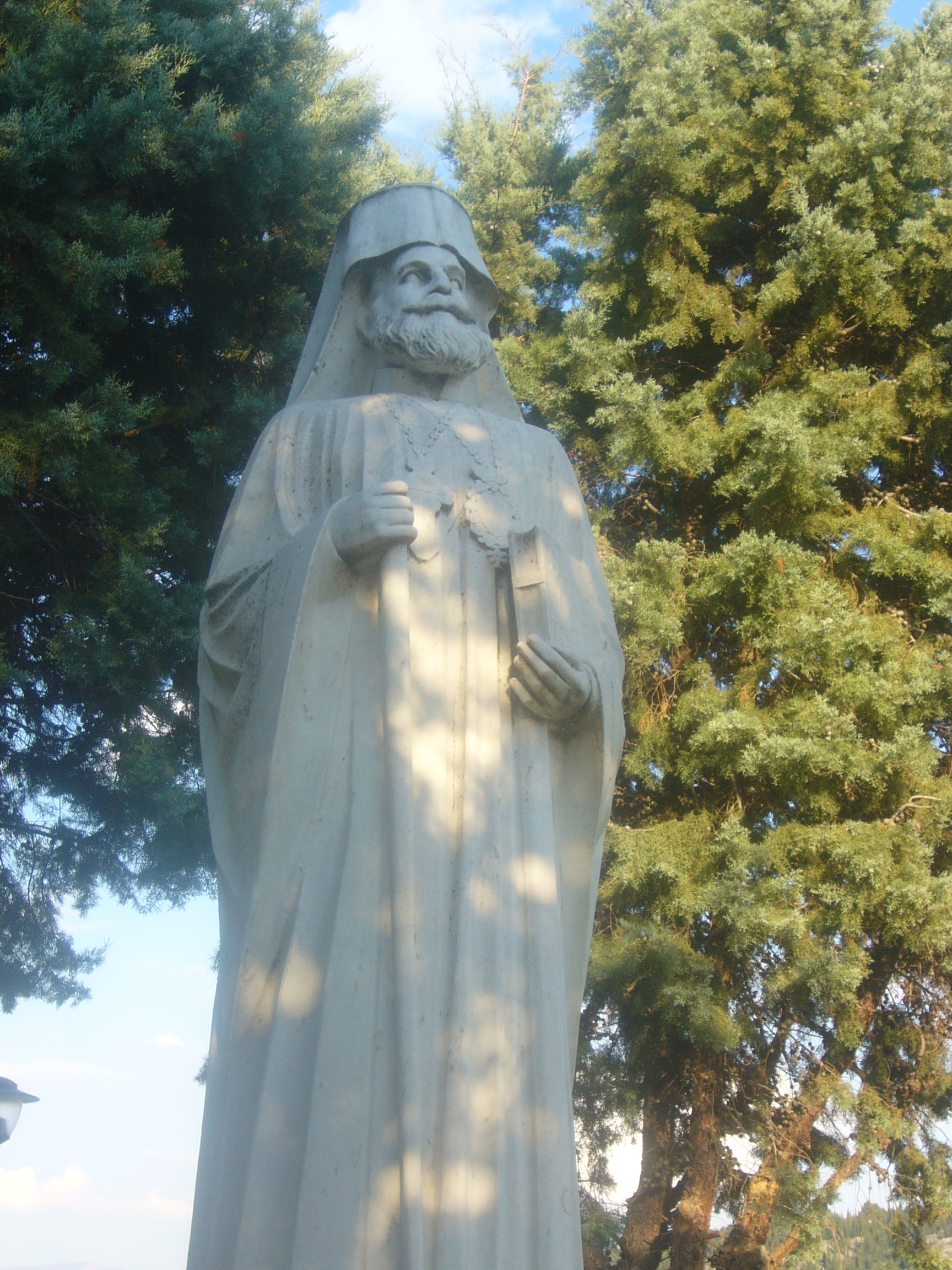 Germanos Karavangelis statue in Kastoria/Kostur, Aegean Macedonia